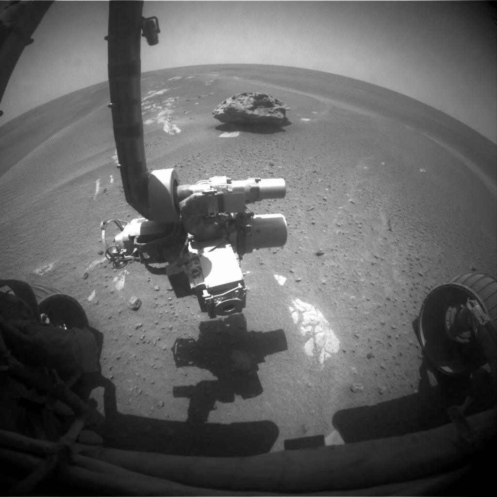 What is this strange rock on Mars? Sitting on a smooth plane, the rock stands out for its isolation, odd shape, large size and unusual texture. The rock was discovered by the robotic Opportunity rover rolling across Mars. Opportunity prepares to inspect the unusual rock. After being X-rayed, poked, and chemically analysed, the rock has now been identified by Opportunity as a fallen meteorite. Now dubbed Block Island, the meteorite has been measured to be about 2/3 of a meter across and is now known to be composed mostly of nickel and iron. This is the second meteorite found by a Martian rover, and so far the largest.